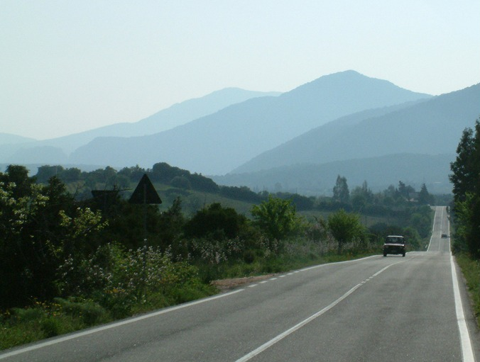 Representation of 3D in 2D pictures: central projection of the road, mountains arranged one behind the other combined with increase of brightness and blue level.